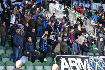 Football fans of FC Inter Turku.